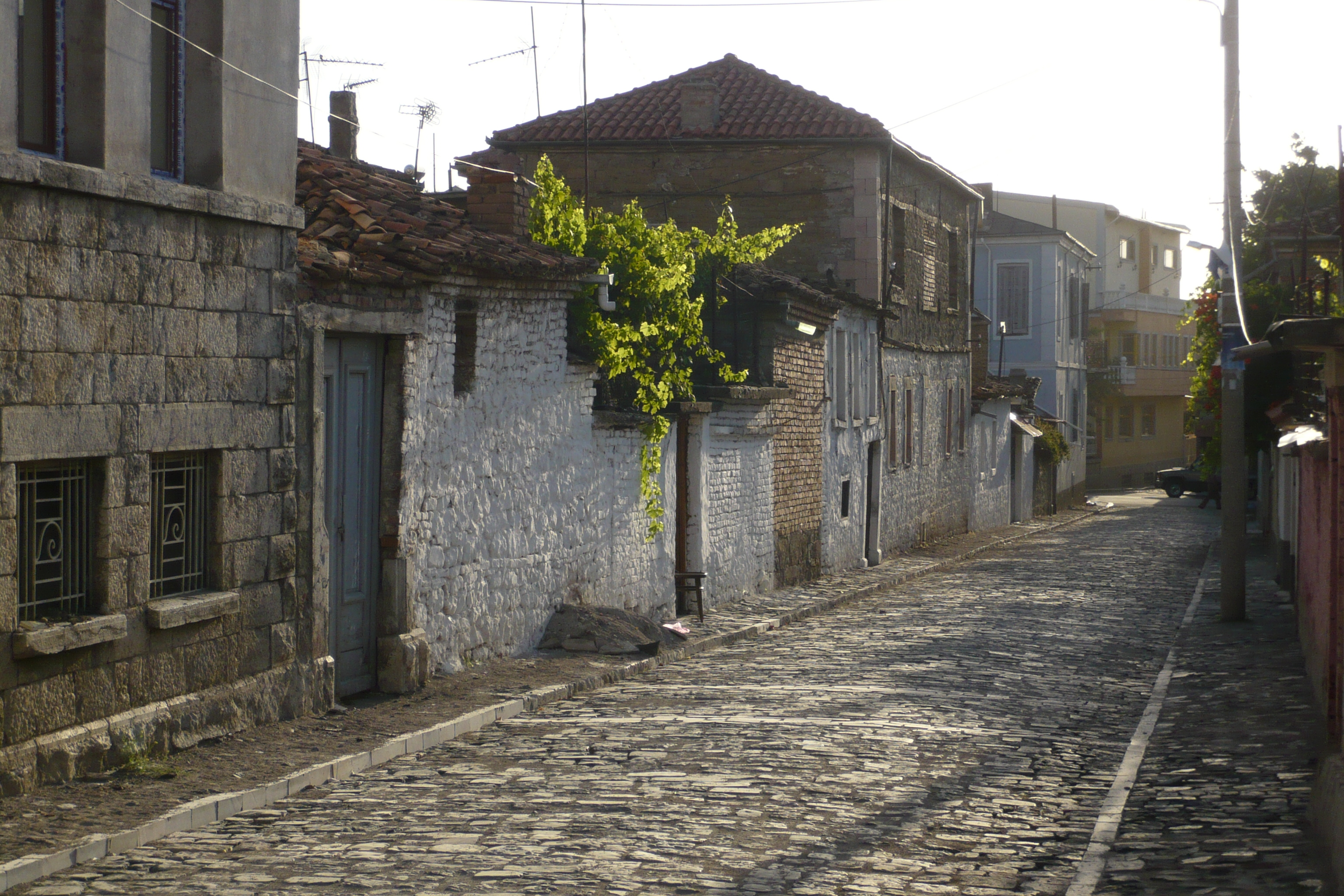 Backstreet in central Korçë, Albania